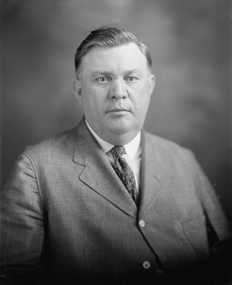 Jasper N. Tincher (Kansas Congressman)